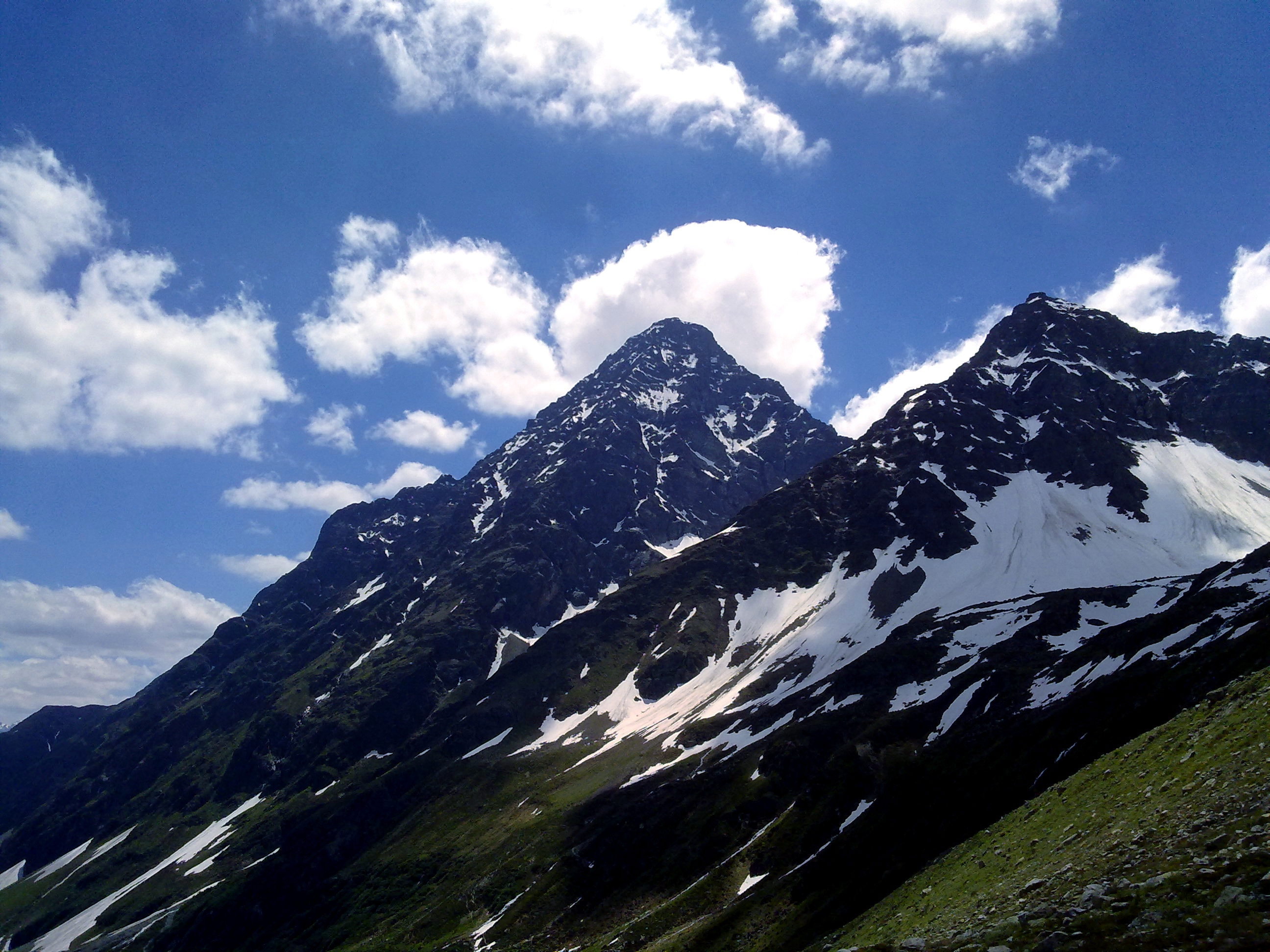 Piz Linard, Val Lavinuoz